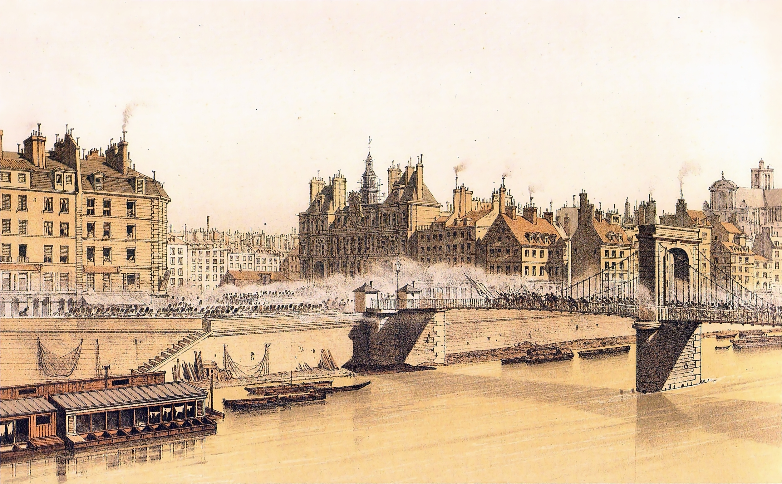 Engraving by Theodor Josef Hubert Hoffbauer (1839-1922), showing the Hôtel de Ville de Paris during the 1830 revolution (28 july).